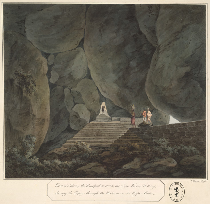 A passage through the rocks leading to the upper fort of Bellary.